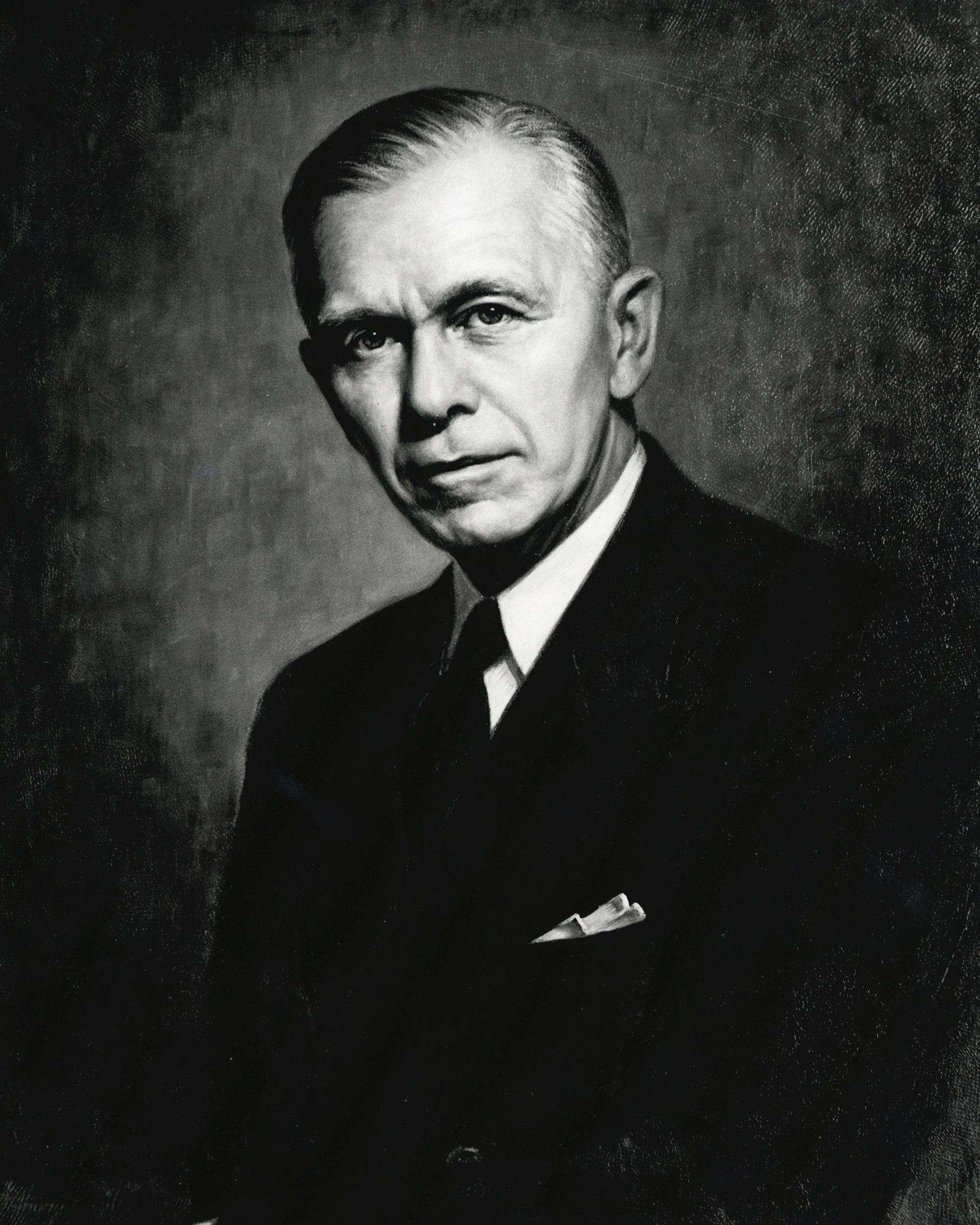 George C. Marshall, U.S. Secretary of State, January 21, 1947 to January 20, 1949